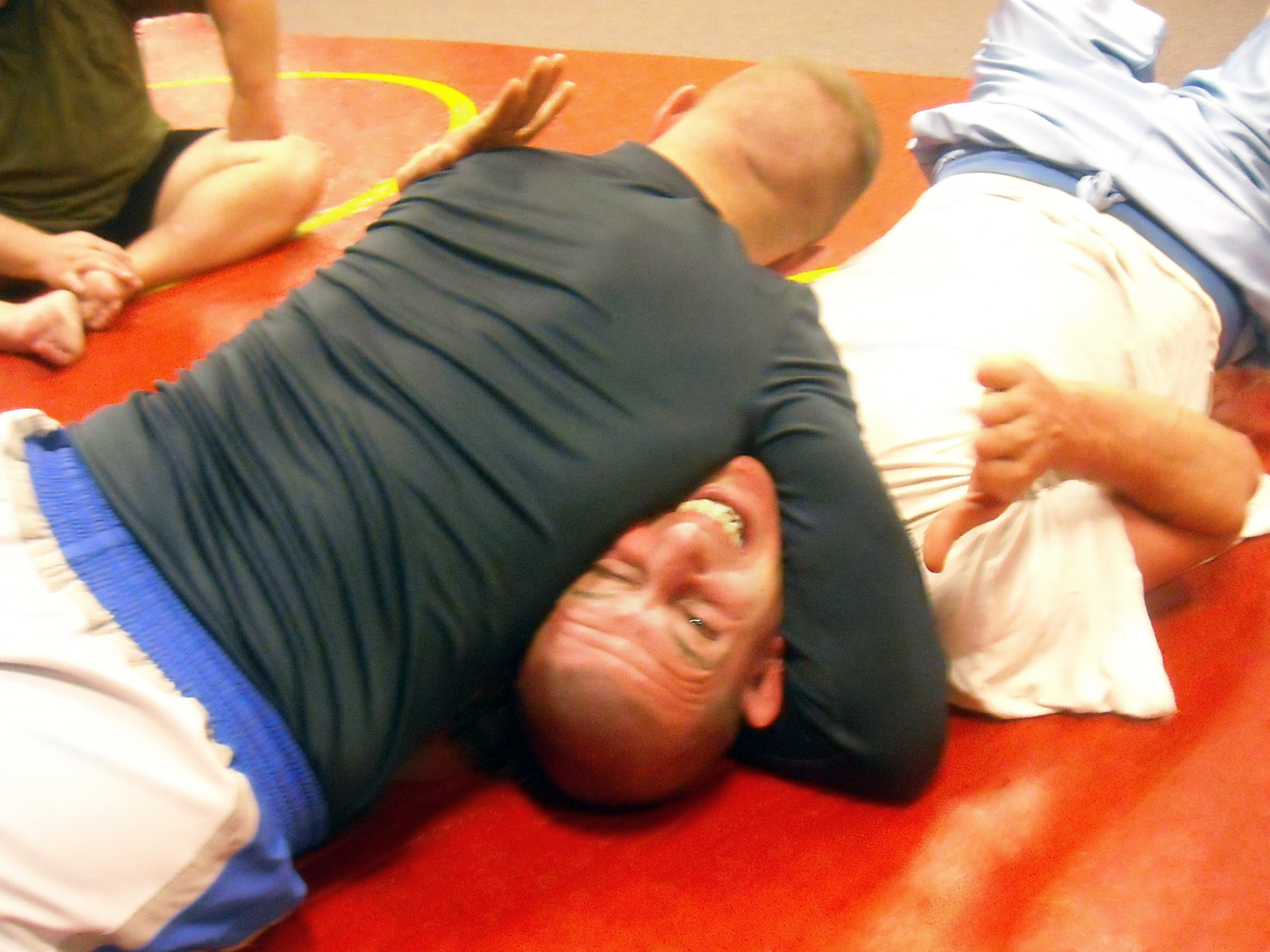 3rd Degree Pancrase Black belt Jerry Roeder demonstrates the North–south choke.